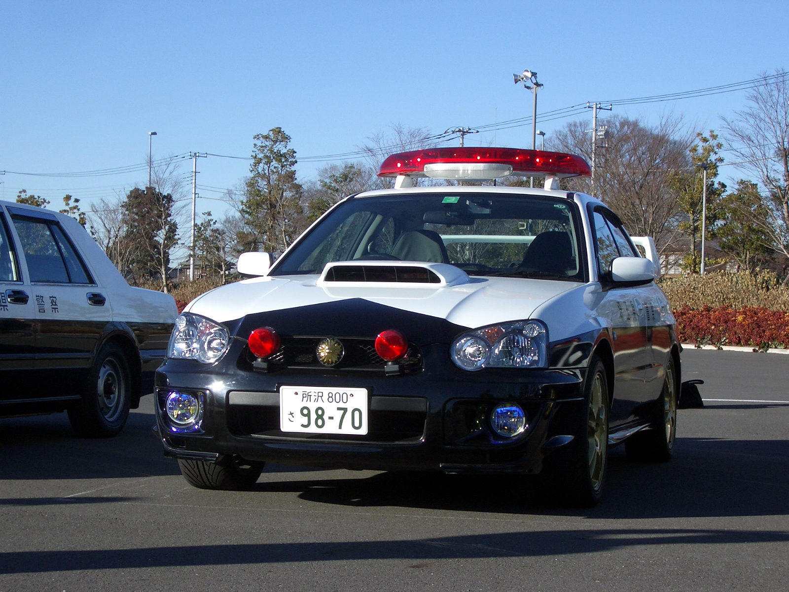 Japanese SUBARU IMPREZA WRX STi police car in Saitama prefecture.